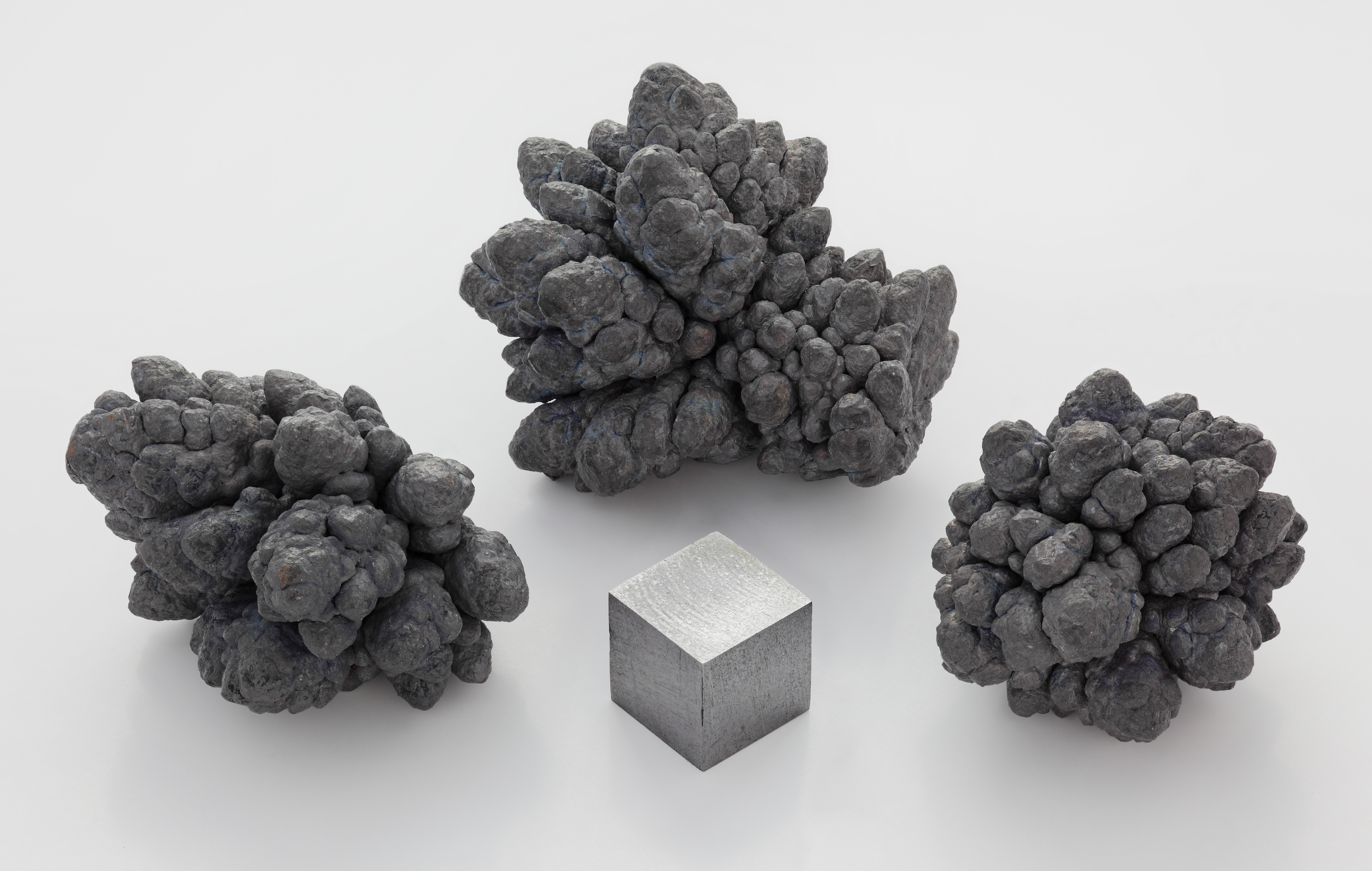 Electrolytically refined pure (99.989 %) superficially oxidized lead nodules and a high purity (99.989 %) 1 cm3 lead cube for comparison.